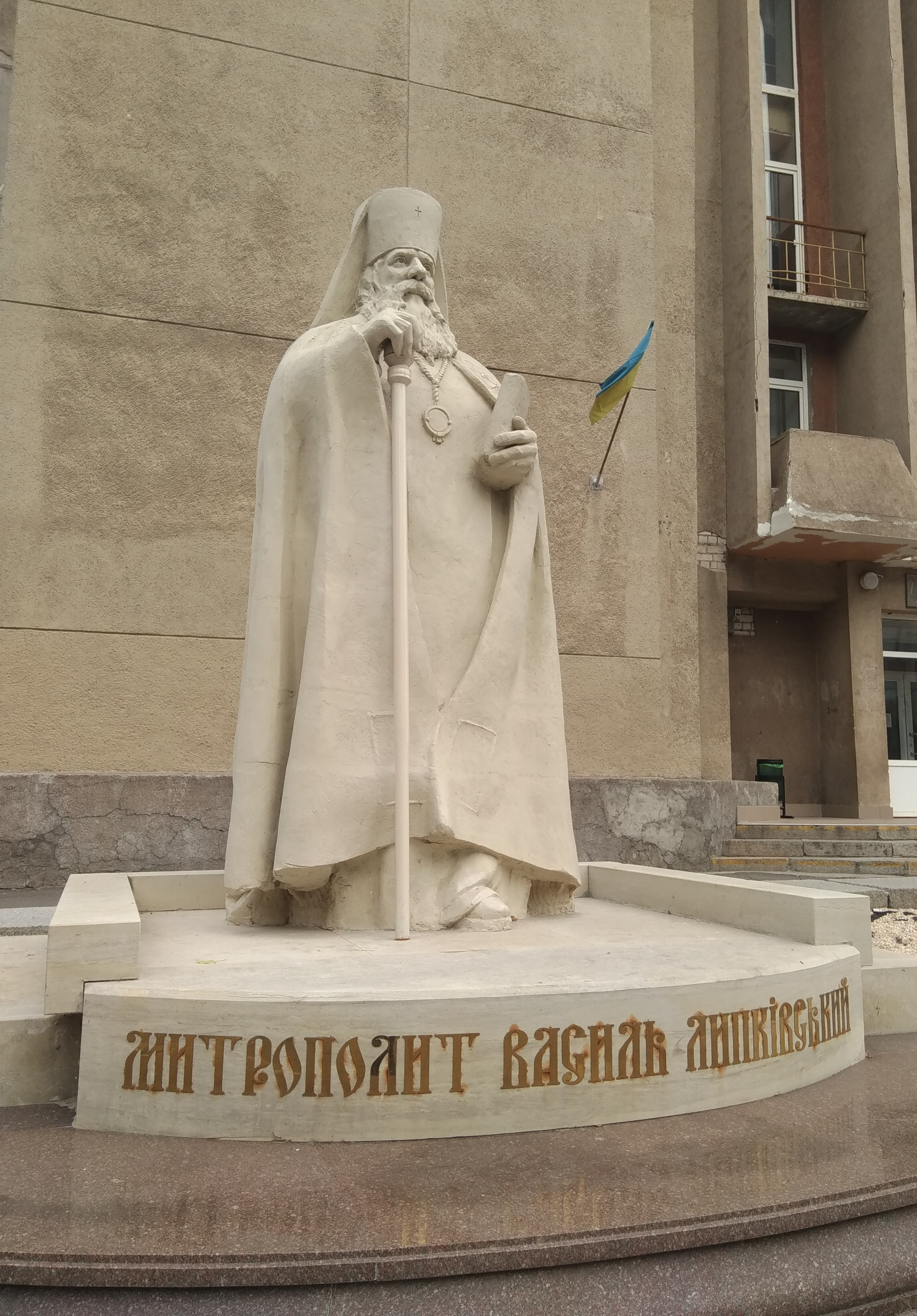 Vasyl Lypkivsky monument in Cherkasy